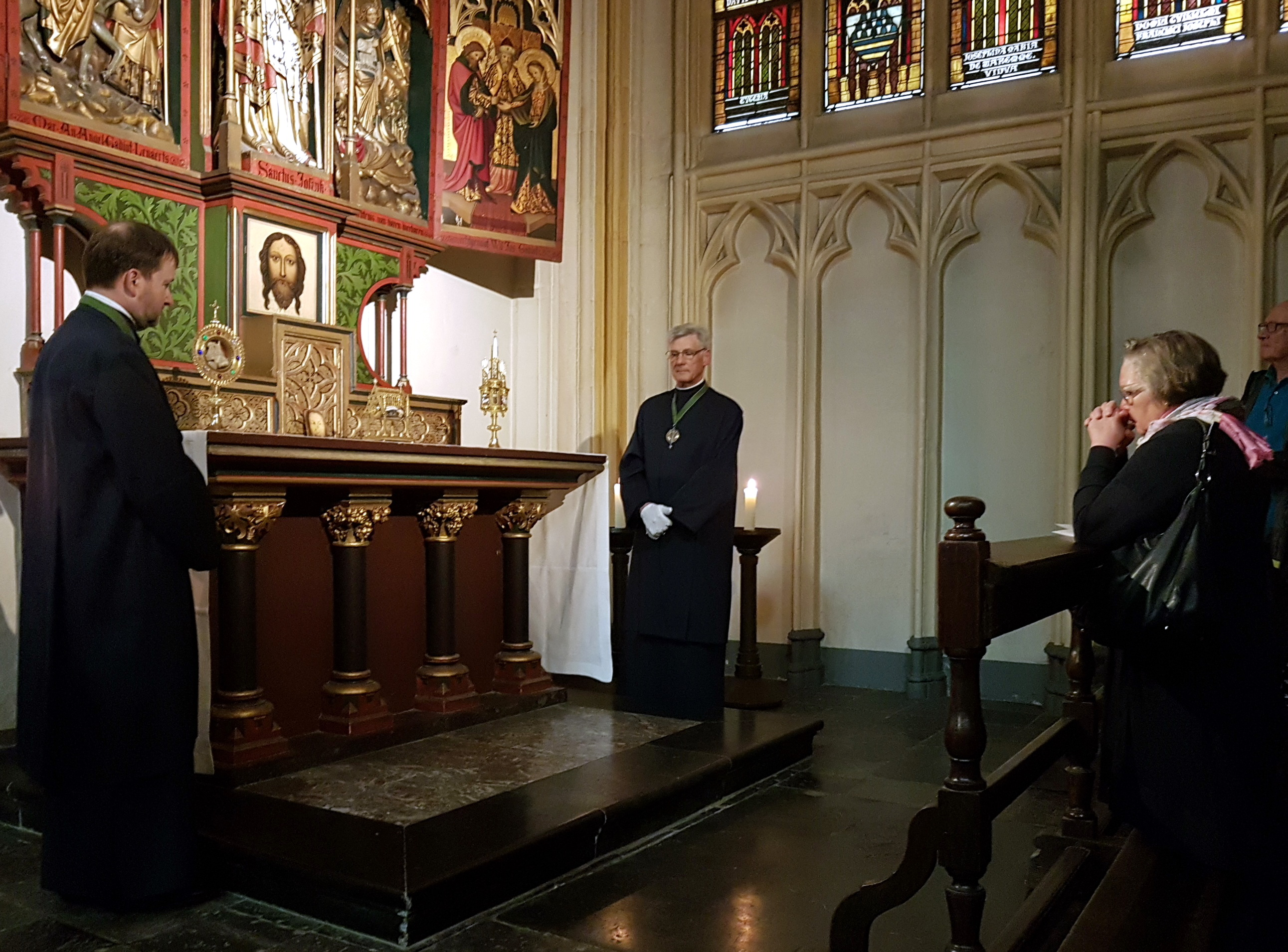 Display of reliquaries on the altar of the chapel of Saint Joseph in the Basilica of Saint Servatius in Maastricht, Netherlands. These objects from the church's treasury are shown here immediately after the church service in which the relics are venerated (Saturday 2 June 2018). This is part of the 2018 Heiligdomsvaart ("relics pilgrimage") celebrations, a religious and historic event that takes place once in seven years and dates back to the Middle Ages.